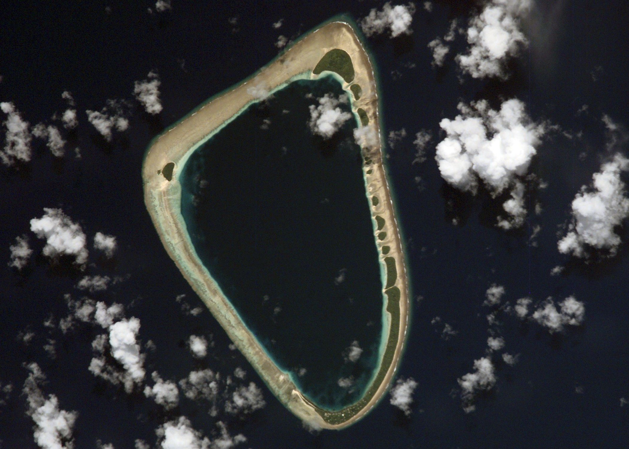 NASA astronaut image of Etal Atoll, Chuuk State, Federated States of Micronesia